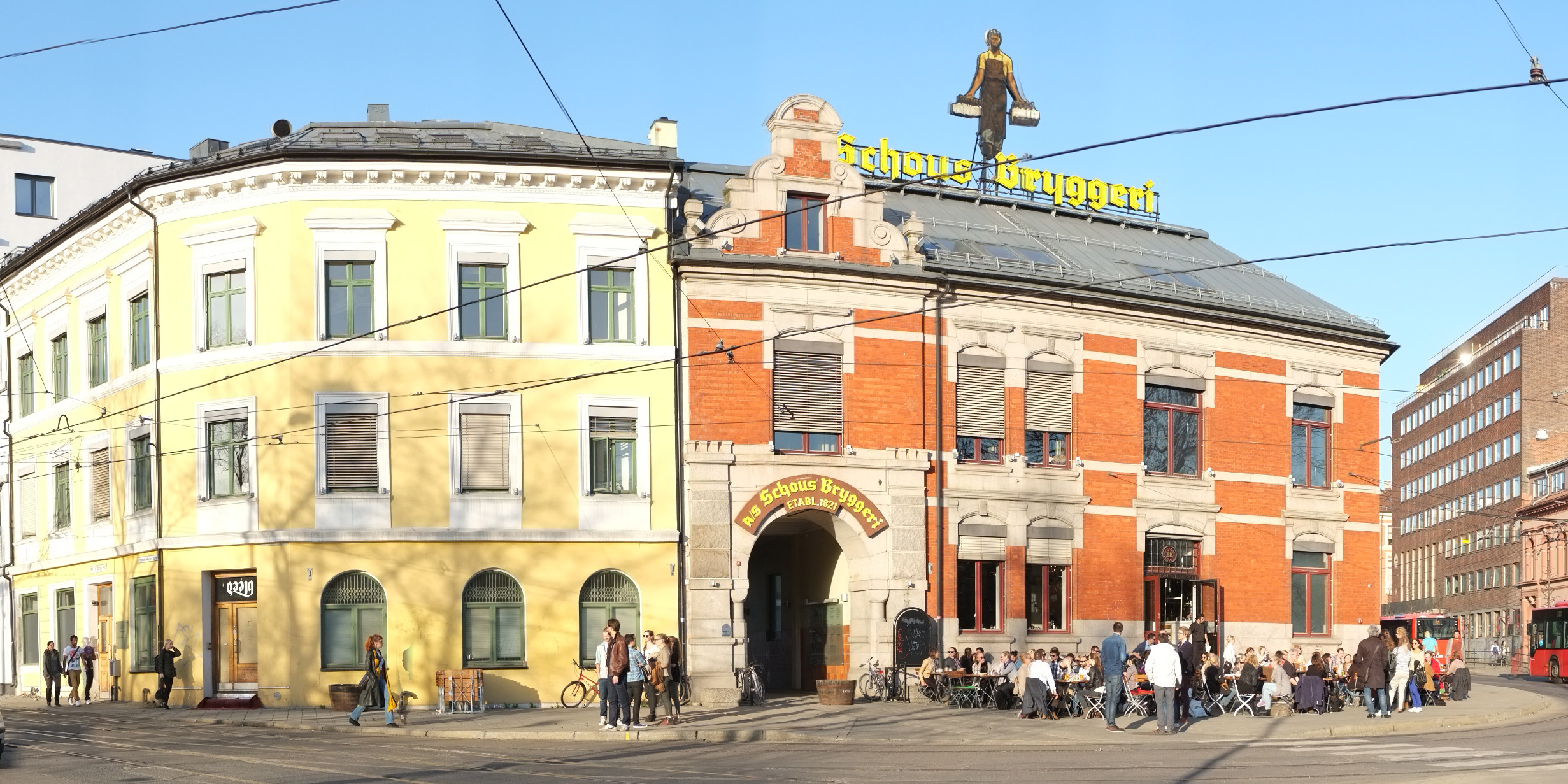 The building that once housed Schous Brewery, Oslo, Norway